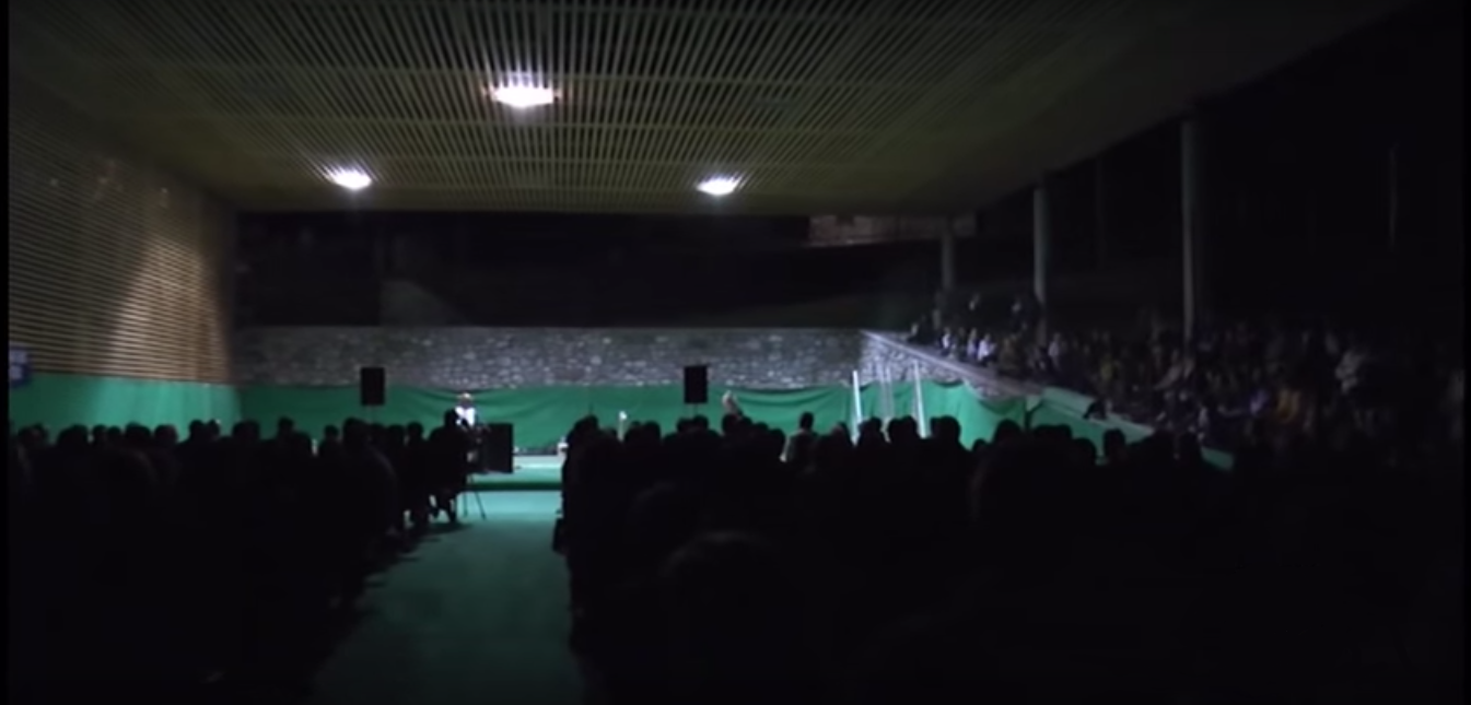 Andrea Tonoli, concert 2017